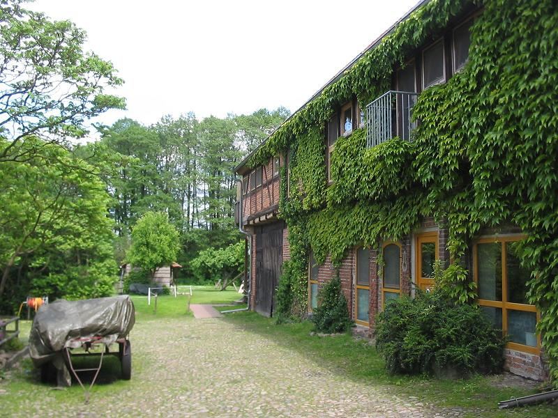 “Tagungshaus Baitz“ (conference house), a former farm building. The village Baitz is an incorporated part of the town Brück in Brandenburg, Germany.